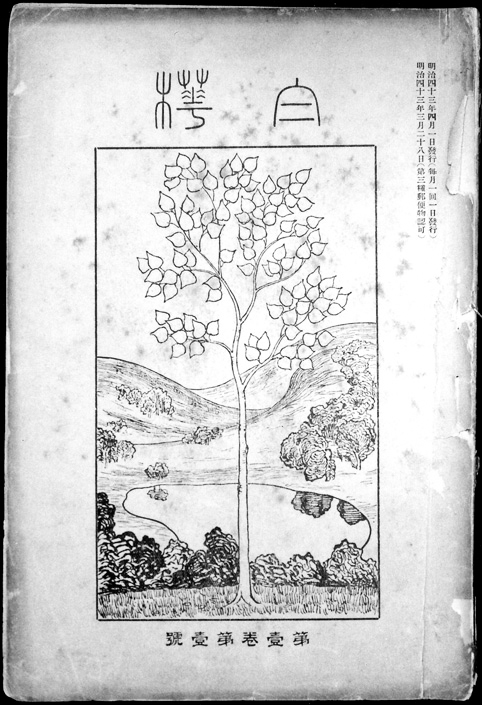 Cover of the first issue of Shirakaba (implying betula platyphylla)